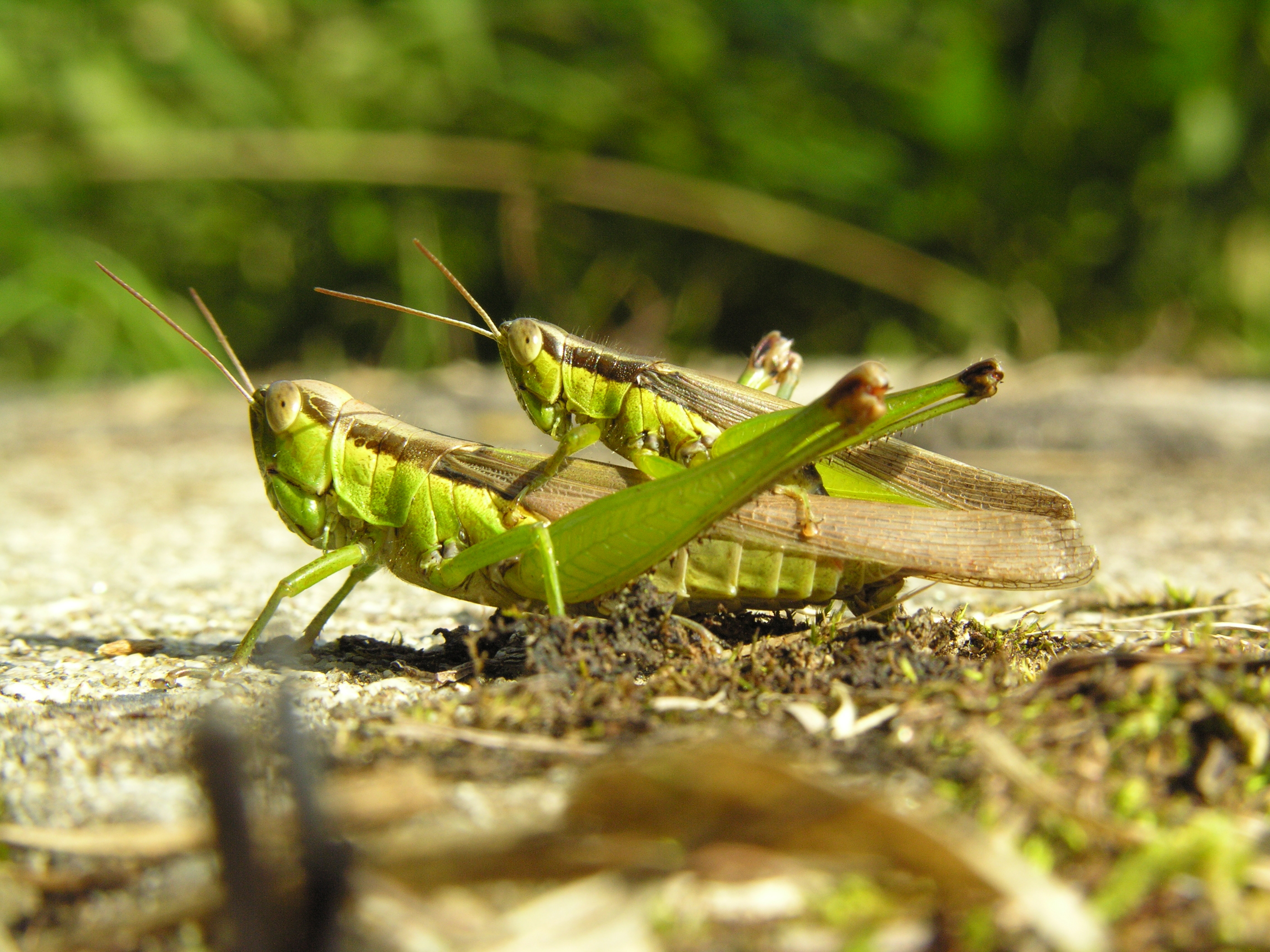 Mating (long winged)rice grasshopper (Oxya japonica)